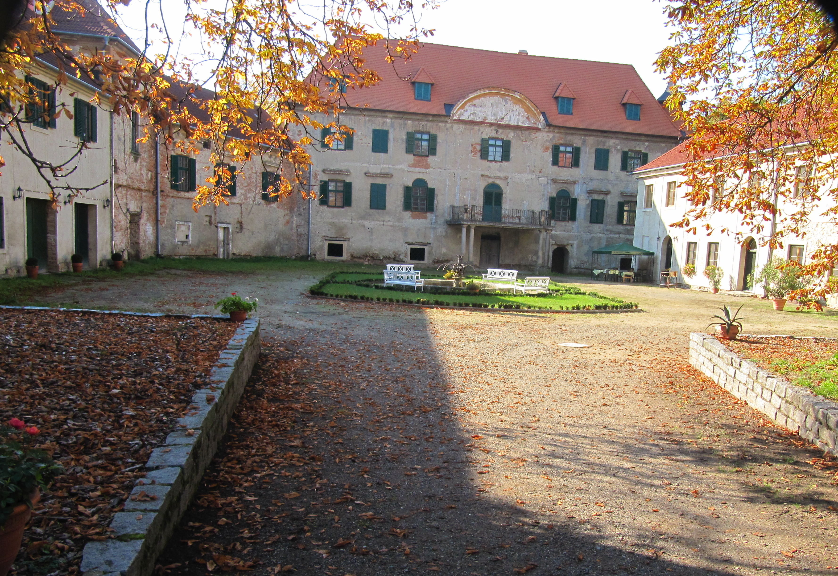 Litenčice in Kroměříž District, Czech Republic. Courtyard of the castle.